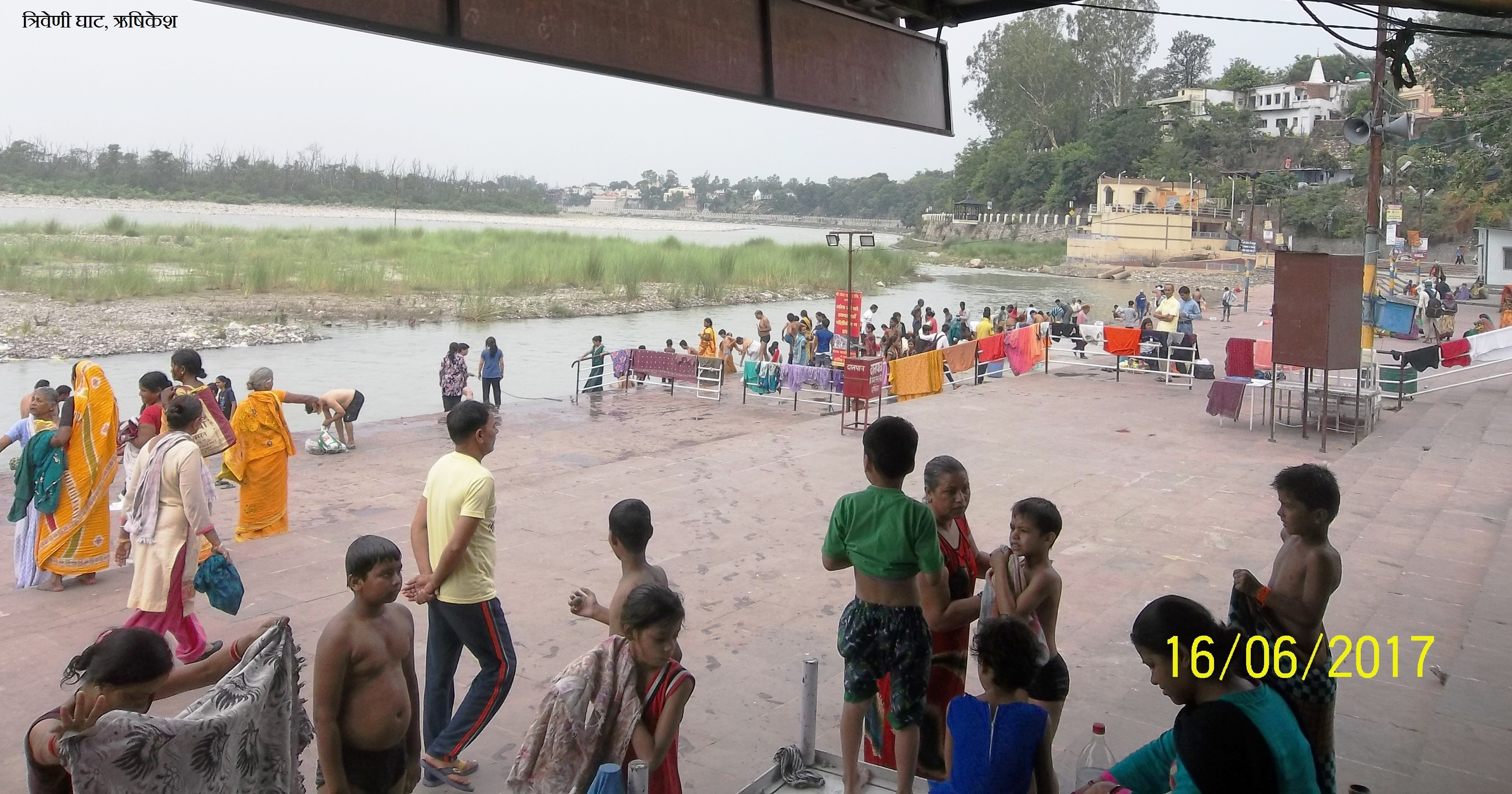 Triveni Ghat, Rishikesh